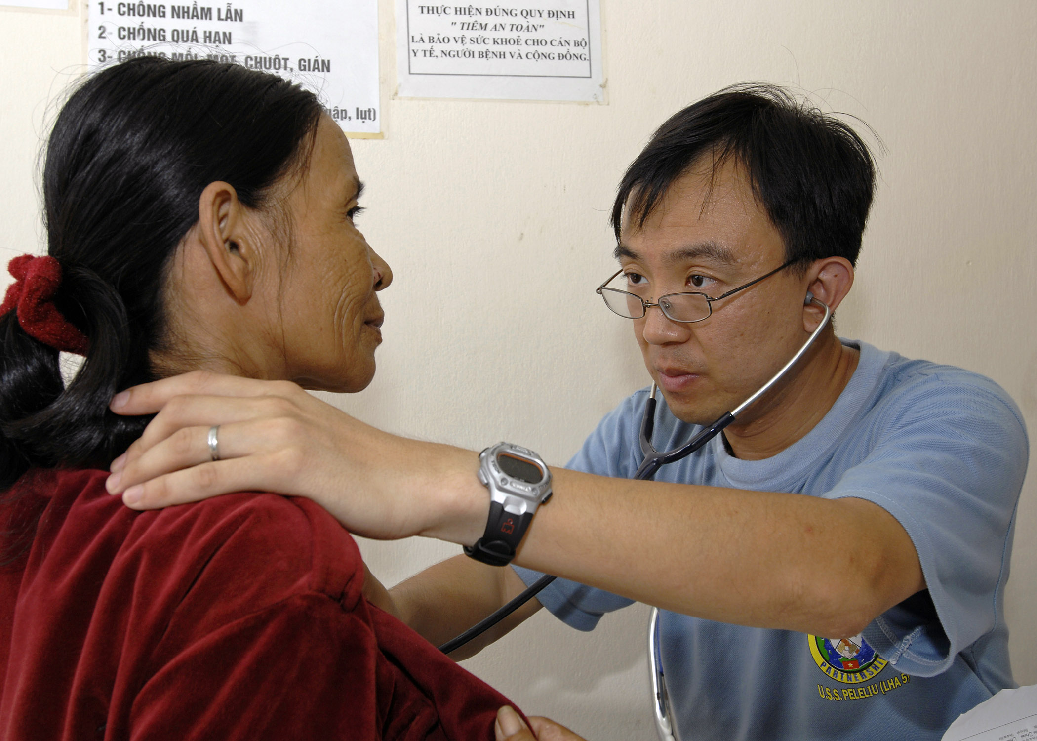 DA NANG, Vietnam (July 20, 2007) - Volunteer doctor Capt. Yehudi Yeo, with the Singapore navy, listens to a Vietnamese patient's breathing pattern at the Man Thai Ward Medical Station. Medical doctors, dentists and volunteers attached to amphibious assault ship USS Peleliu (LHA 5) were at the medical station to help Vietnamese patients with a variety of health conditions to support Pacific Partnership 2007. The Vietnamese government is working with Pacific Partnership to facilitate medical, dental, and engineering assistance programs in the Da Nang area. Along with regional partners and non-governmental organizations, the Pacific Partnership team is providing the local community with a wide range of assistance. U.S. Navy photo by Mass Communication Specialist 3rd Class Bryan M. Ilyankoff (RELEASED)